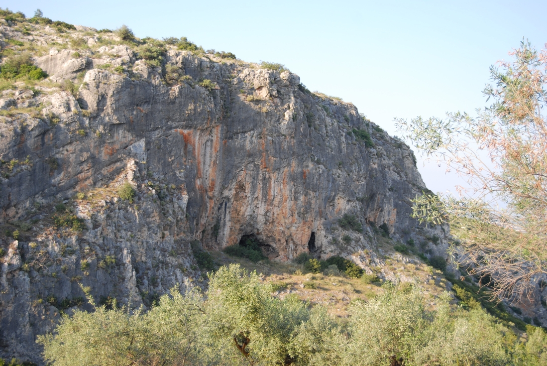 A cave at Agios Thomas village, in Boeotia Prefecture, Greece